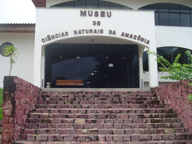 Museum of Natural Science of the Amazon.